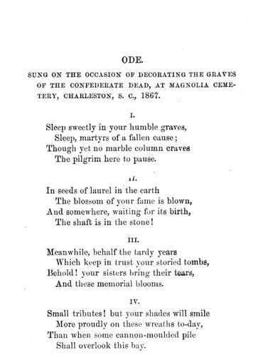 First page of "Ode: Sung on the Occasion of Decorating the Graves of the Confederate Dead at Magnolia Cemetery, Charleston, S.C., 1867", as collected in The Poems of Henry Timrod. New York: E. J. Hale & Sons, 1873. Posthumous collected edited by Paul Hamilton Hayne. The poem was originally published in June 1866.